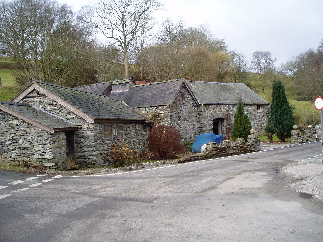 Melin-y-Wig. The former watermill ("melin" is Welsh for mill) at Melin-y-Wig which has been converted into a dwelling.